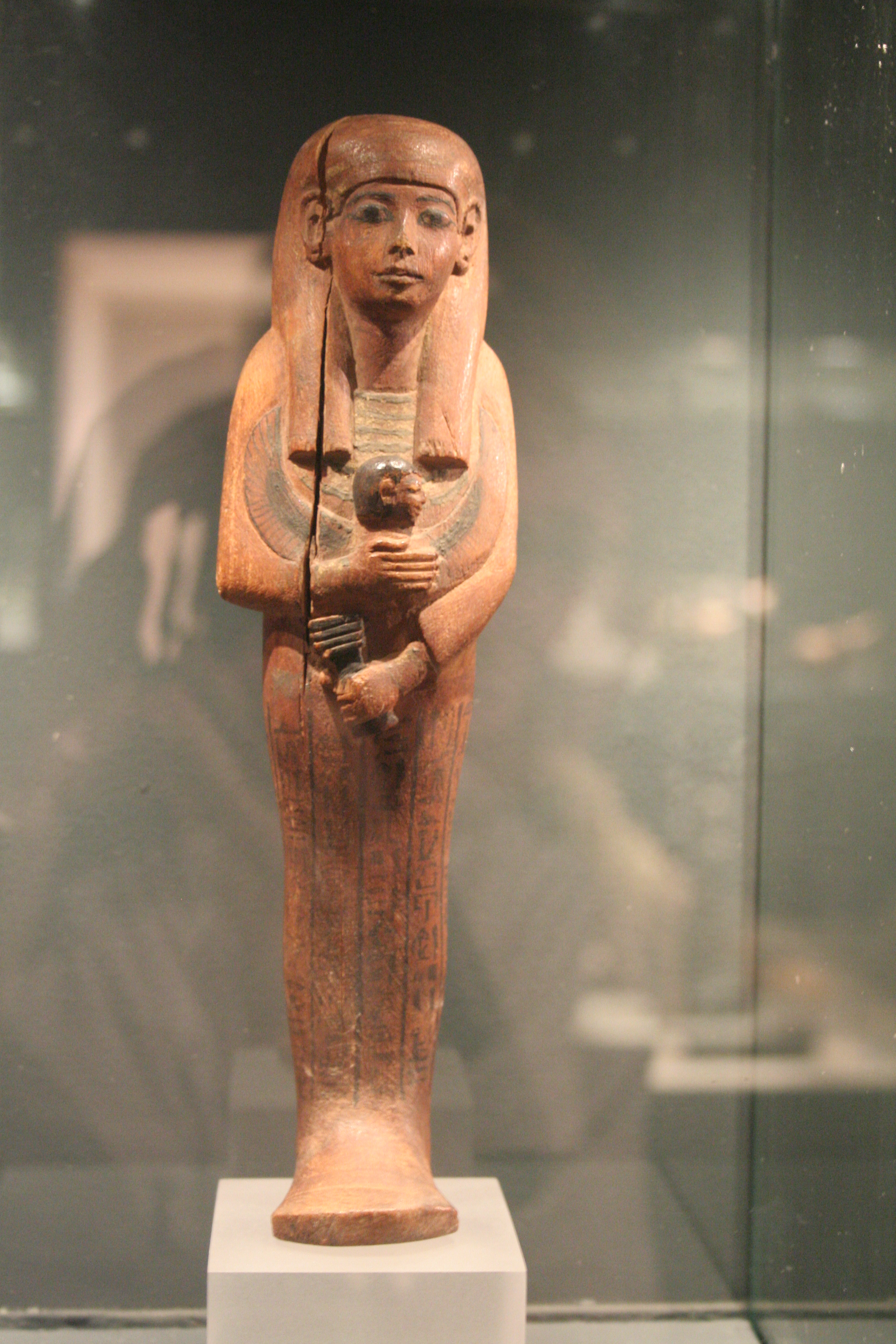 Ushabti